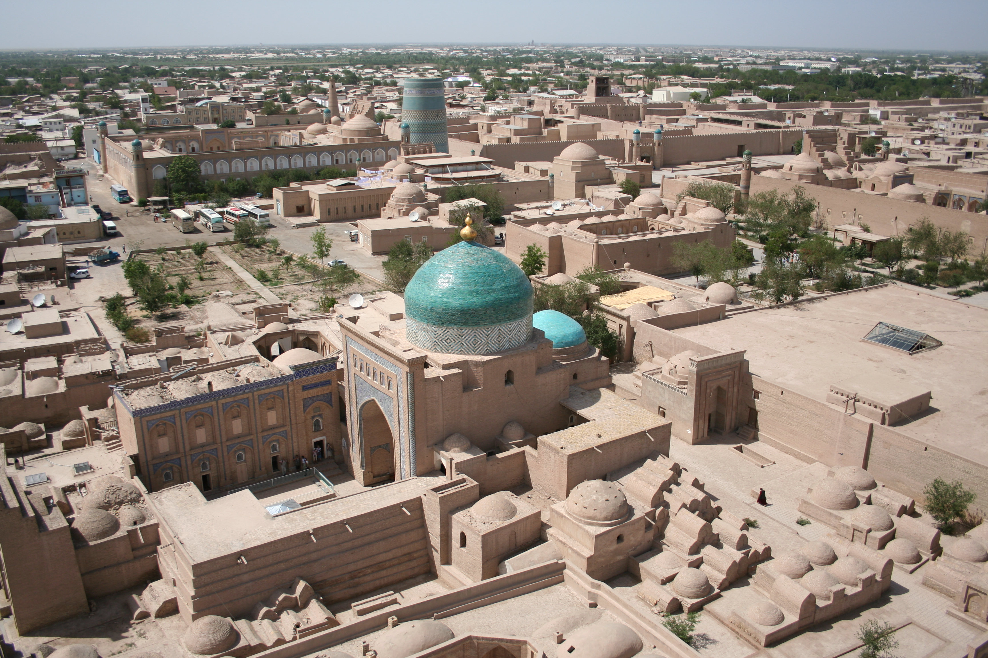 General view of Khiva from the Islam Khodja minaret